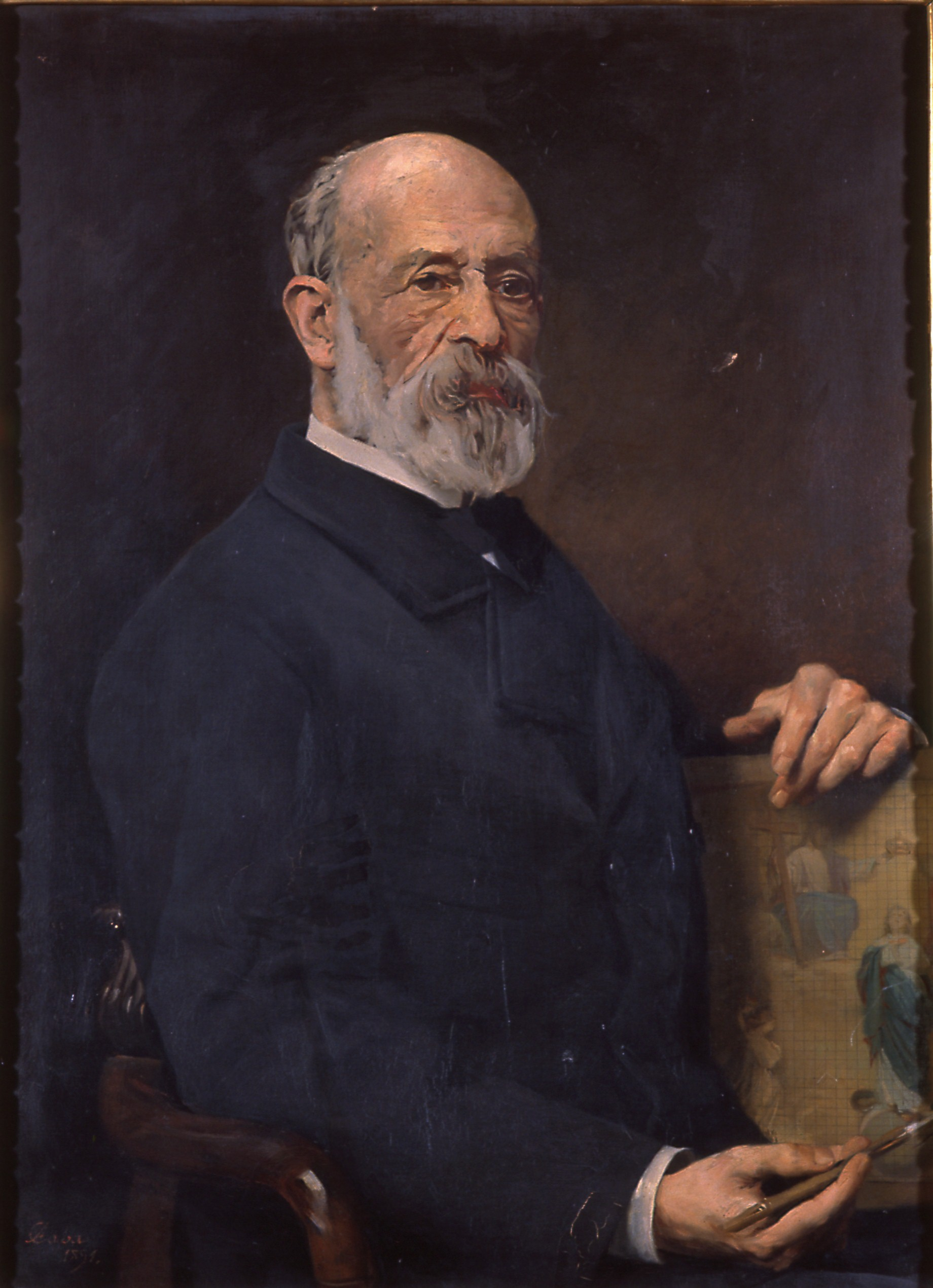 Portrait of Claudi Lorenzale (1891), oil on canvas by Antoni Caba i Casamitjana, 92 x 68 cm (inv. 248)